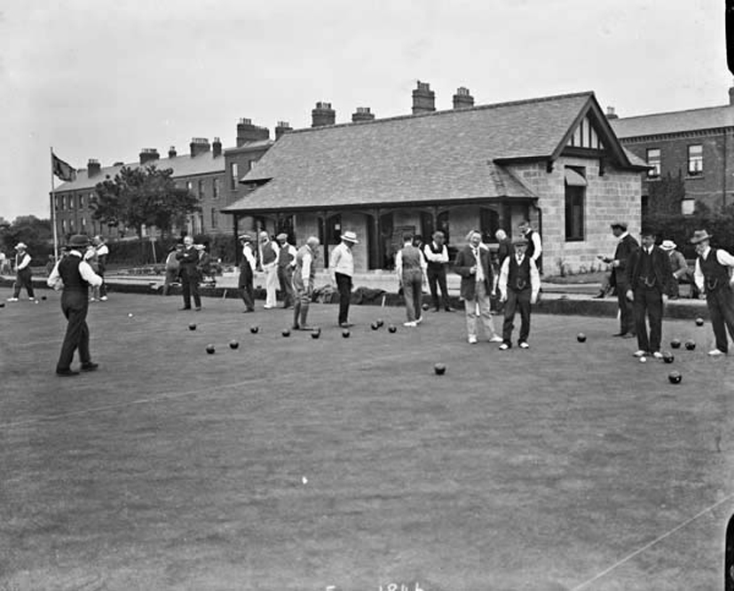 This is Kenilworth Bowling Green at Grosvenor Square, Rathmines, Dublin. This club is still going strong today... Date: Circa 1920 NLI Ref.: EAS_1846